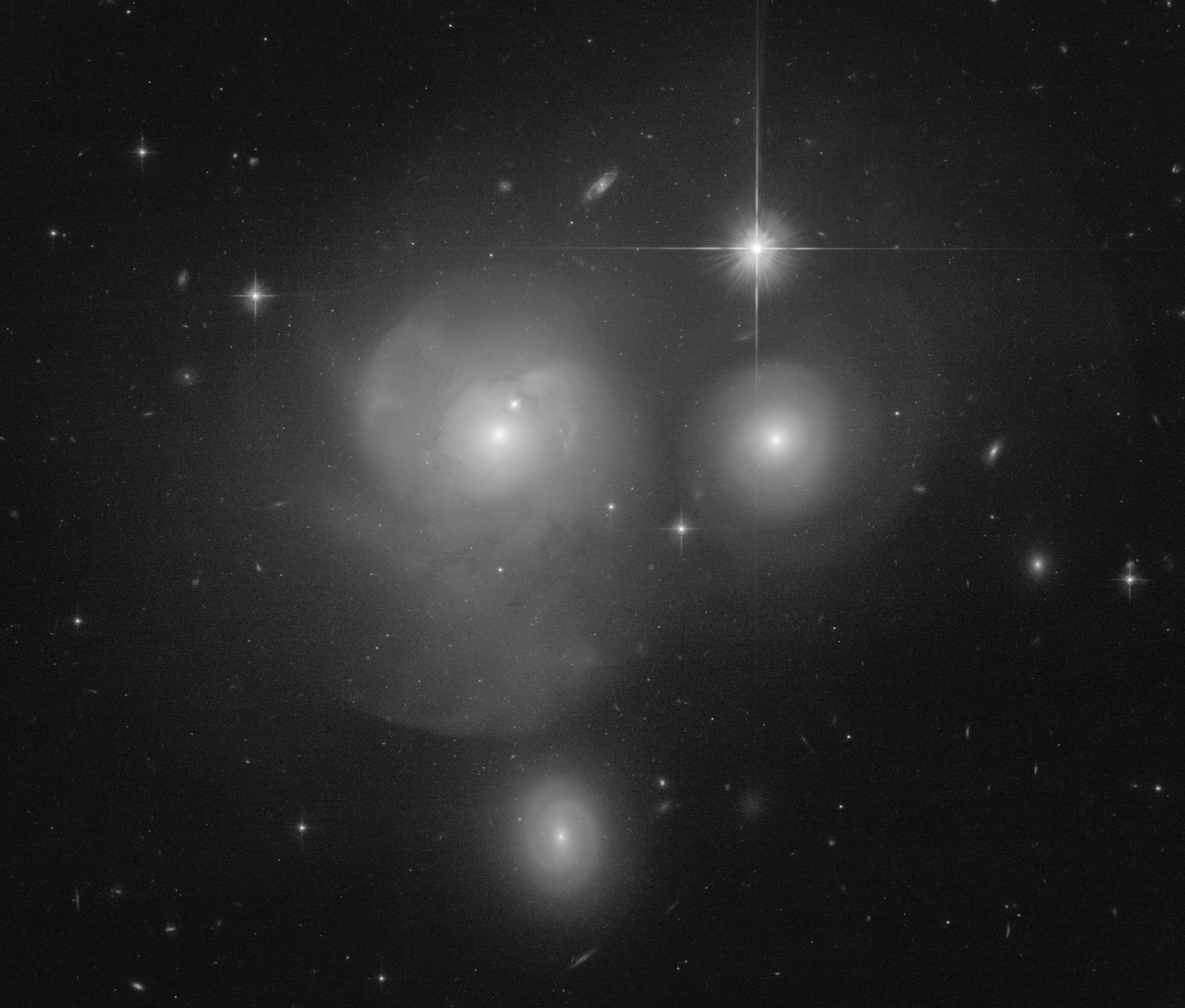 Interesting merger that seems to be an in progress shot showing some shells forming in a large elliptical galaxy. Data from the following proposal is used to create this image: Establishing HST's Low Redshift Archive of Interacting Systems All channels: ACS/WFC F606W North is 8.60° clockwise from up.